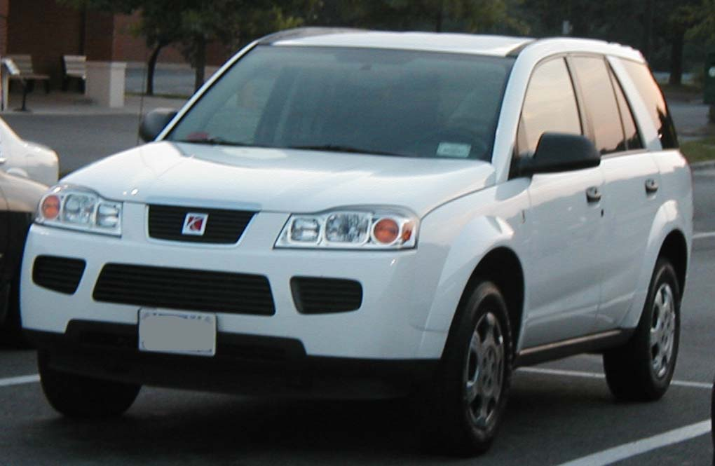 2006 Saturn Vue photographed in USA.